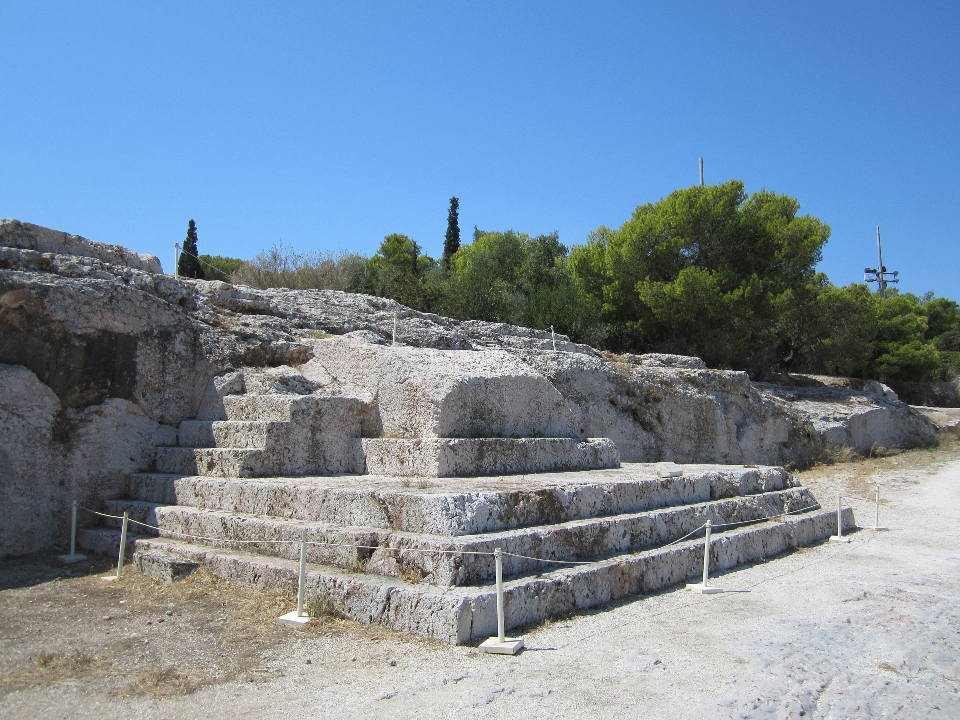 Bema i.e. speakers platform. Pnyx, Athens, Greece.